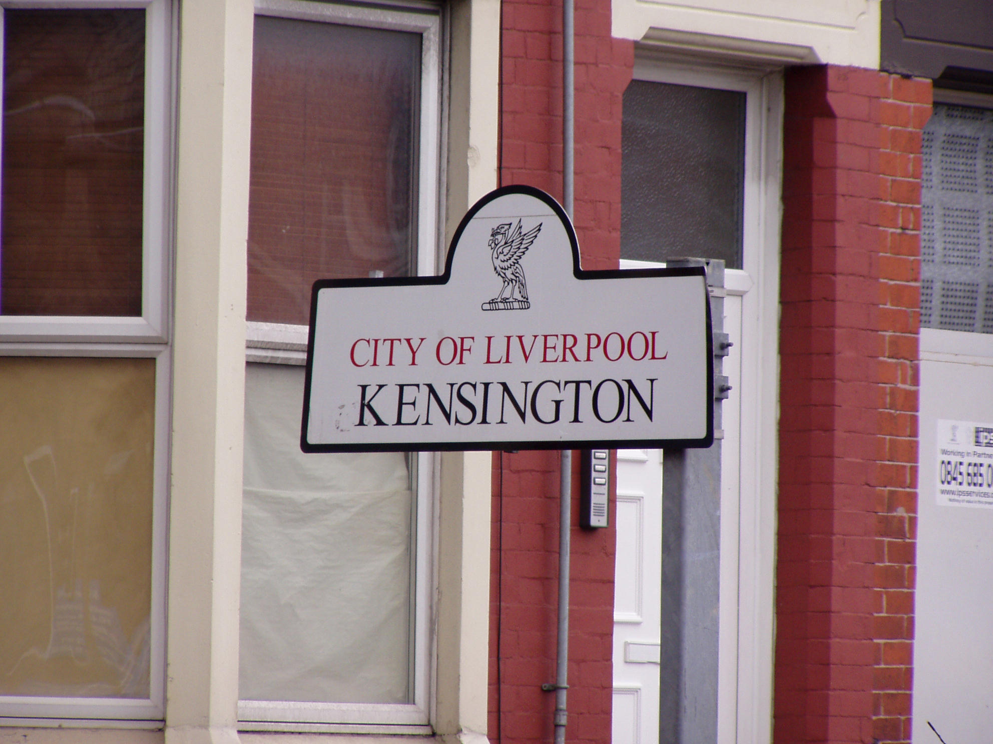 Sign on Holt road as you enter Kensington